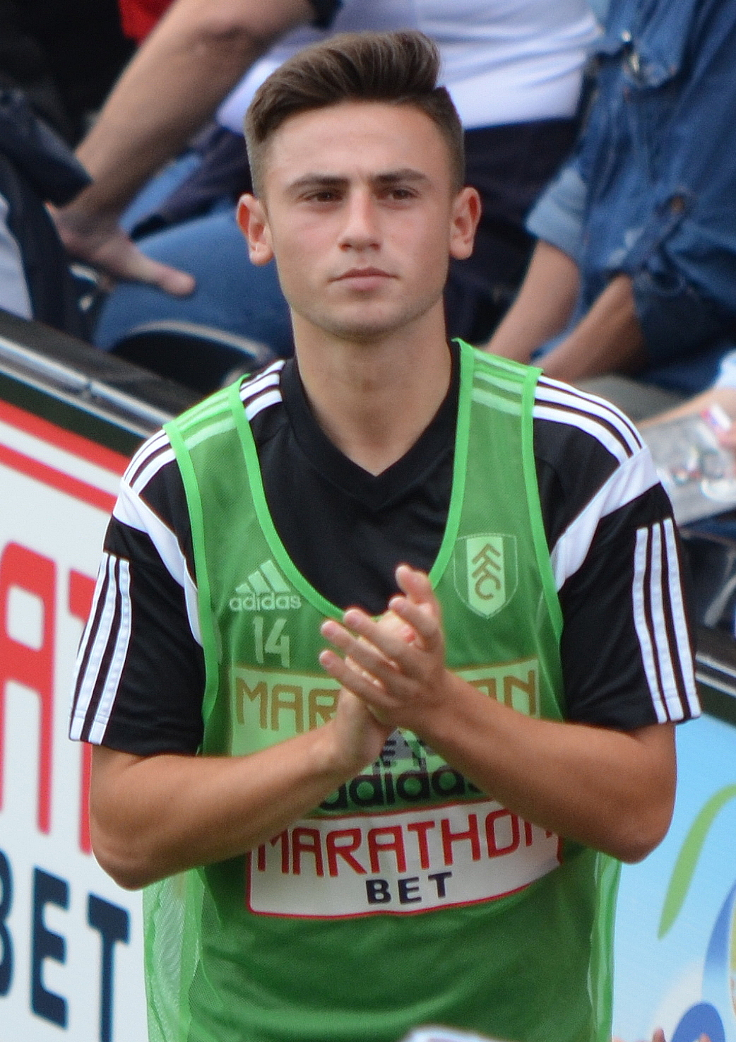 Patrick Roberts warming-up for Fulham FC